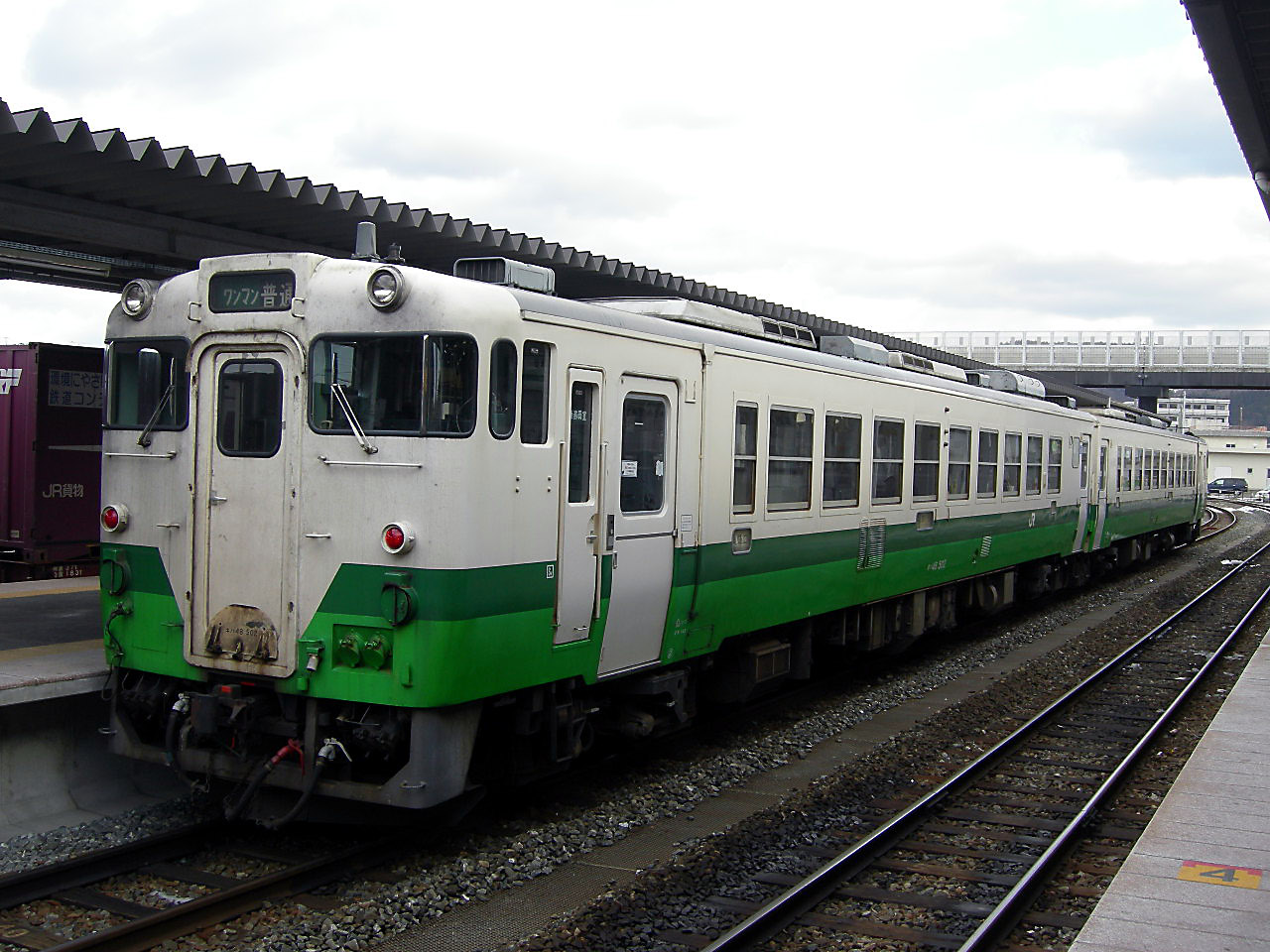 JR East(Kogota) Kiha-48(oneman)